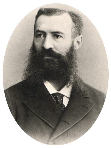 Portrait of Paul Dognin in 1885